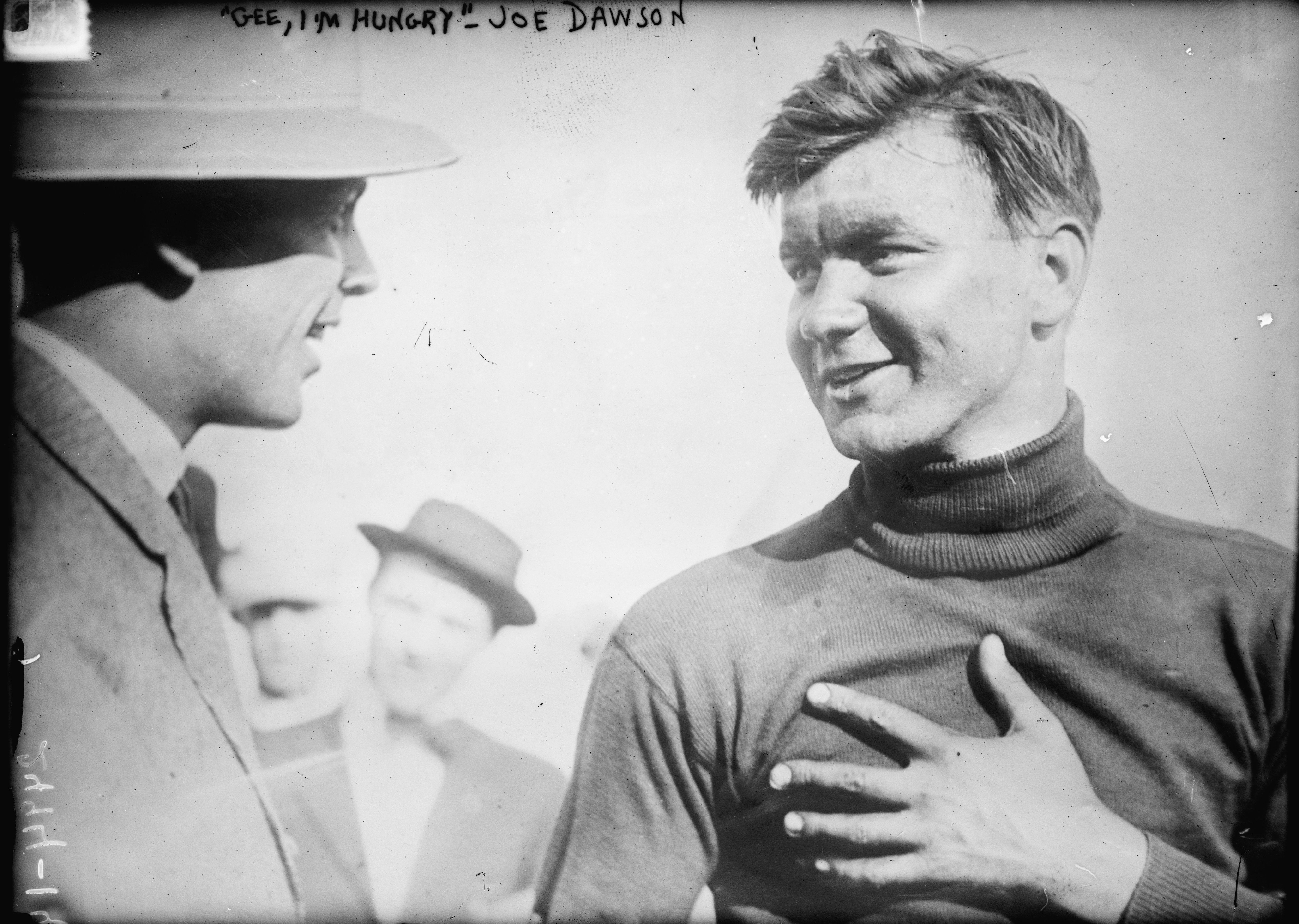 Joe Dawson Bain News Service,, publisher. "Gee, I'm hungry", Joe Dawson [1912] 1 negative : glass ; 5 x 7 in. or smaller. Notes: Title from unverified data provided by the Bain News Service on the negatives or caption cards. Photo shows Joe Dawson, winner of the 1912 Indianapolis 500 automobile race. (Source: Flickr Commons project, 2008) Forms part of: George Grantham Bain Collection (Library of Congress). Format: Glass negatives. Repository: Library of Congress, Prints and Photographs Division, Washington, D.C. 20540 USA, General information about the Bain Collection is available at Persistent URL: Call Number: LC-B2- 2494-14